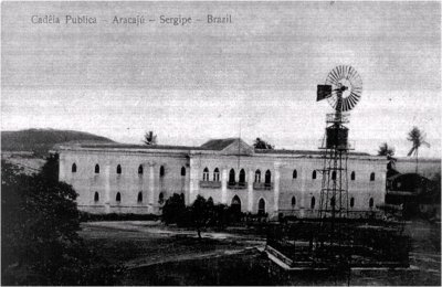 Palace Serigy. Aracaju, state of Sergipe, Brazil.